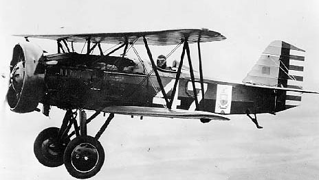 Curtiss P-3 Hawk in flight with ring cowl. Aircraft was based at Chanute AFB, Ill.